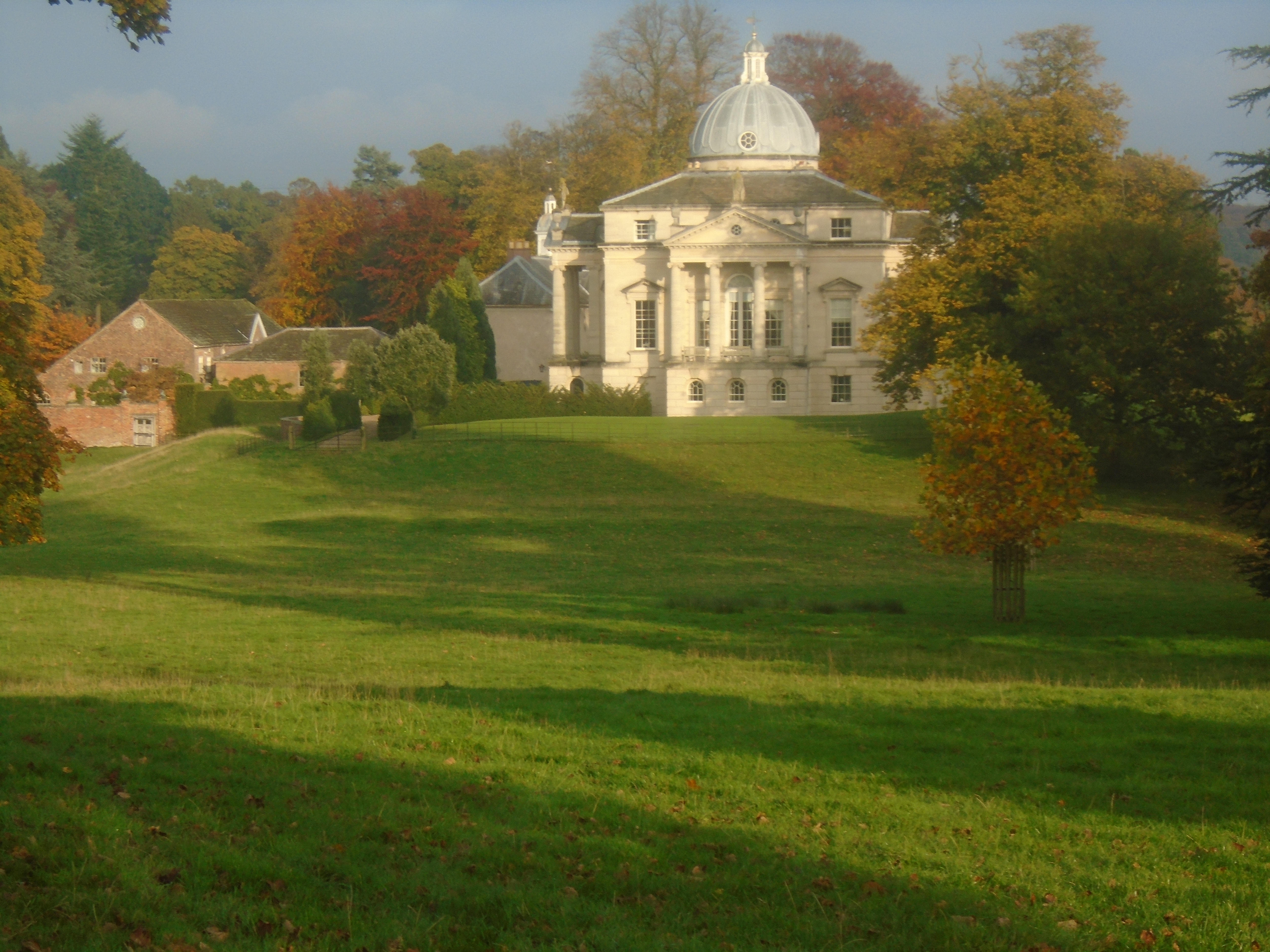 The new house in October 2015